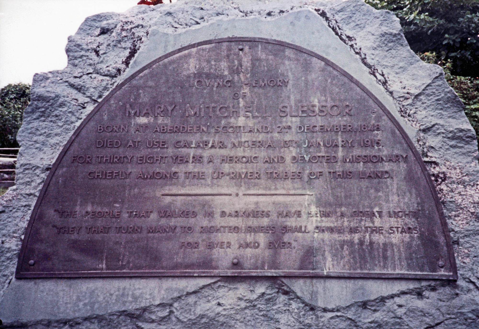 Mary Slessor, Missionary, (1848-1915) memorial headstone on her grave at Calabar Nigeria in 1981.